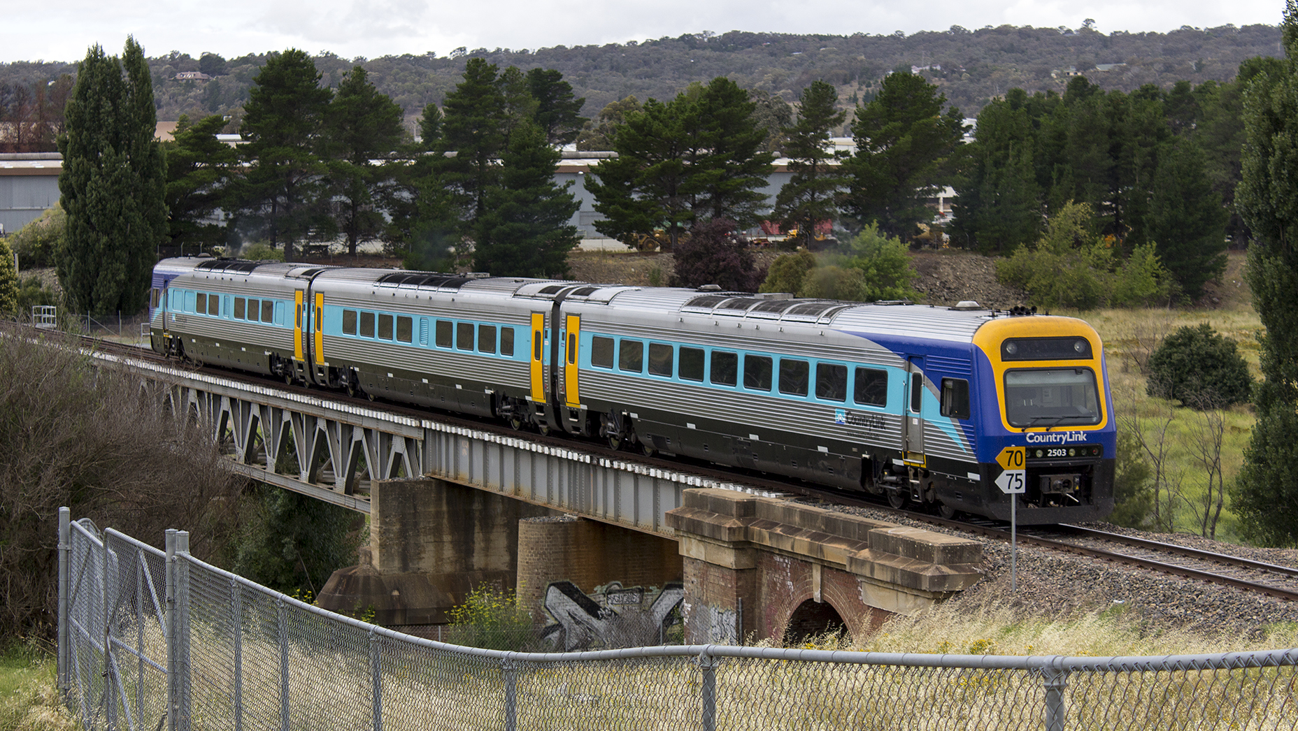 CountryLink Xplorer crossing the Queanbeyan River Railway Bridge, viewed from Oaks Estate, Australian Capital Territory.